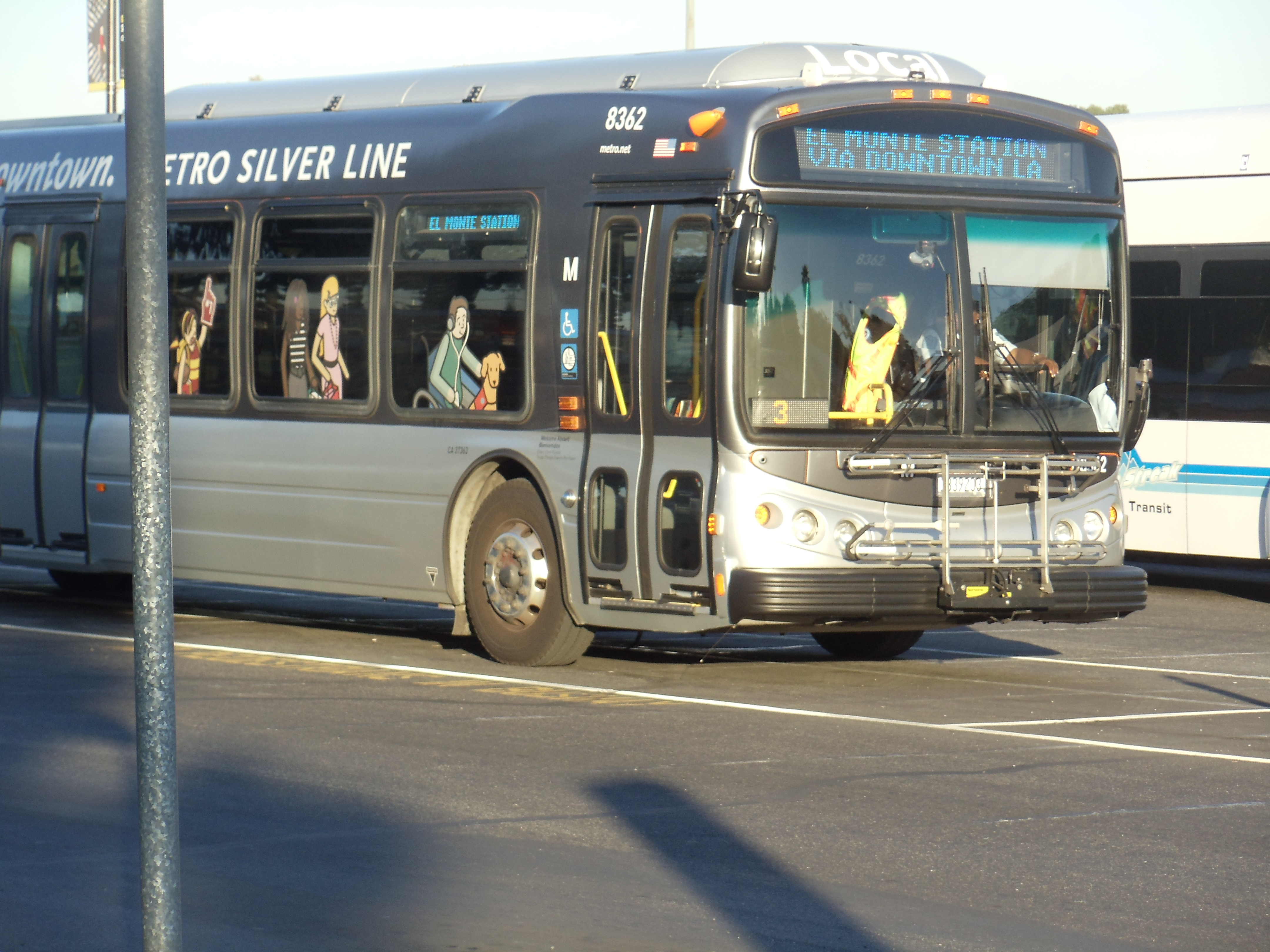 A Metro Silver Line Bus at El Monte Silver Line Station. Notice the bus is in the new Metro Silver Line livery. Go Metro Silver Line!